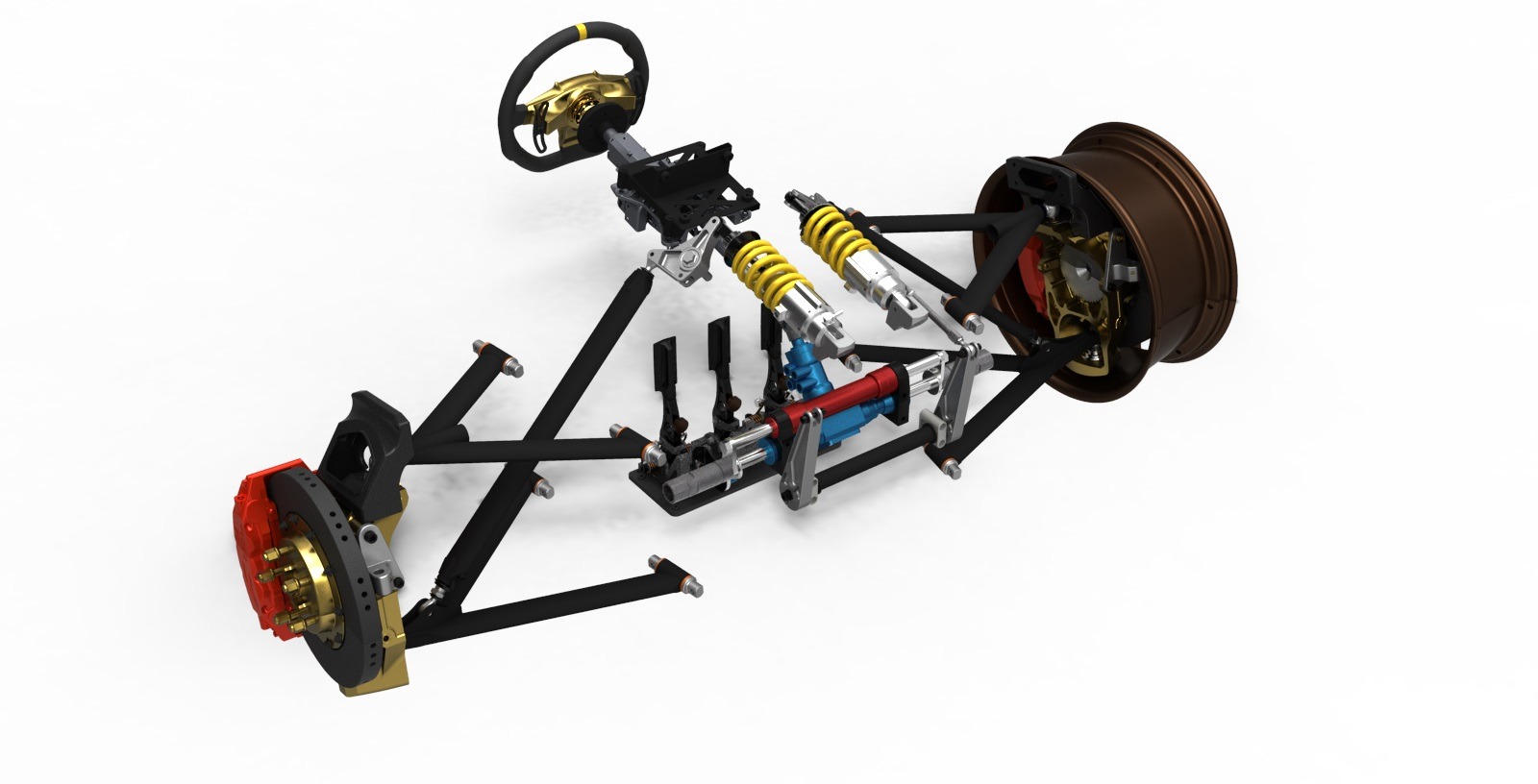 a.d.Tramontana Front Suspension render, incl. steering system